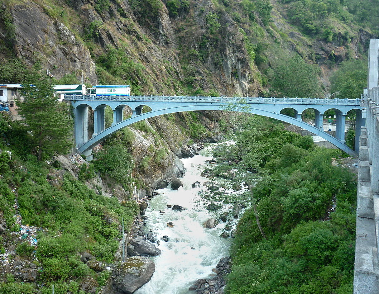 The Friendship Bridge connecting China, on the right, with Nepal, on the left. What a difference a river can make!